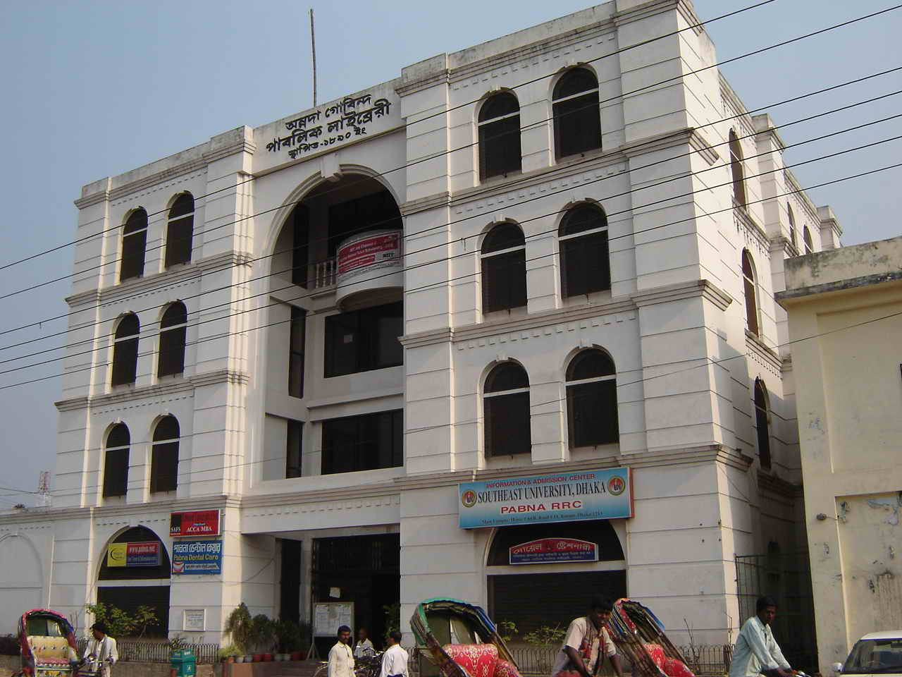 Public library and a private university of Pabna, Bangladesh.